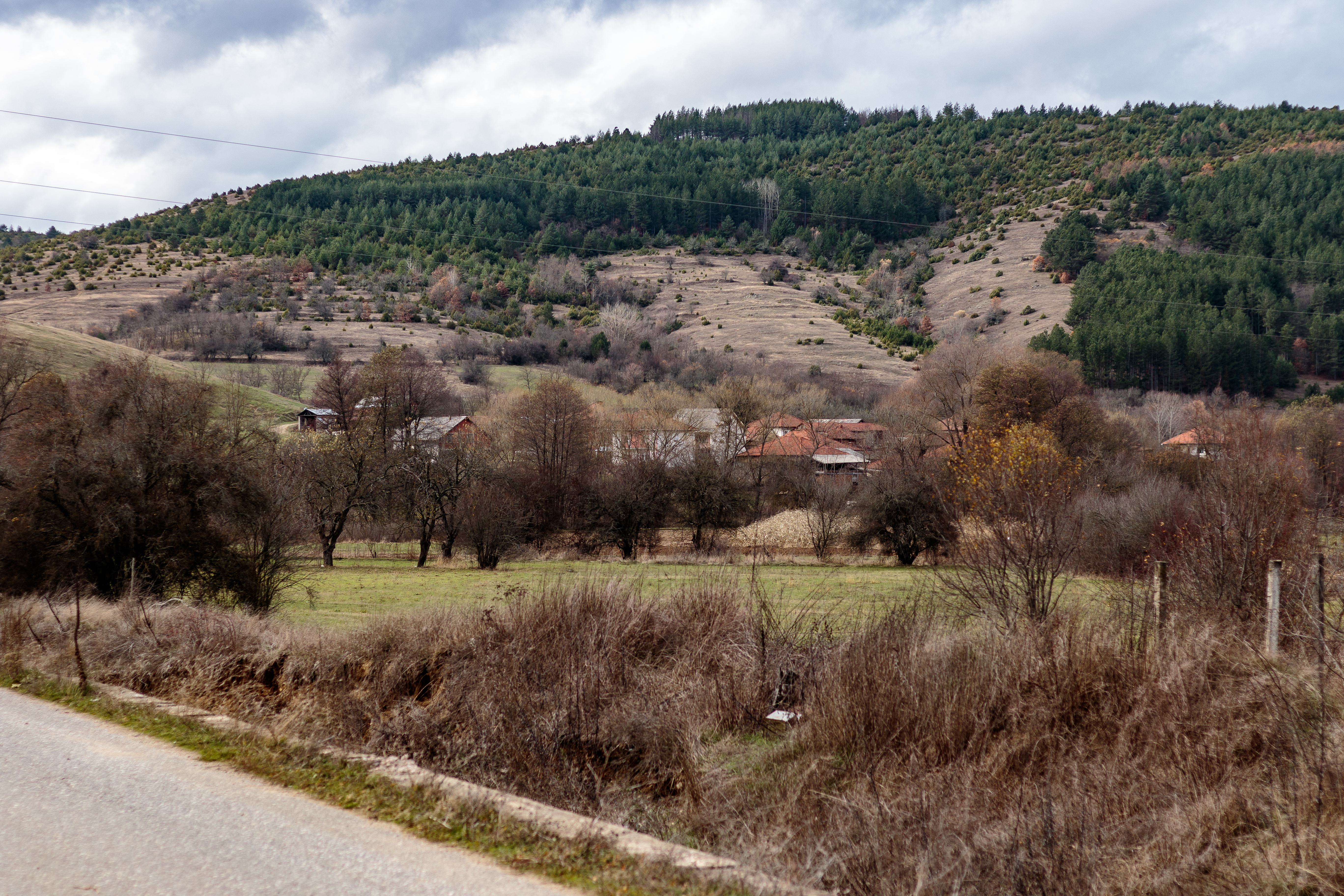 Panoramc view of the village of Mačevo, Maleševija, Macedonia